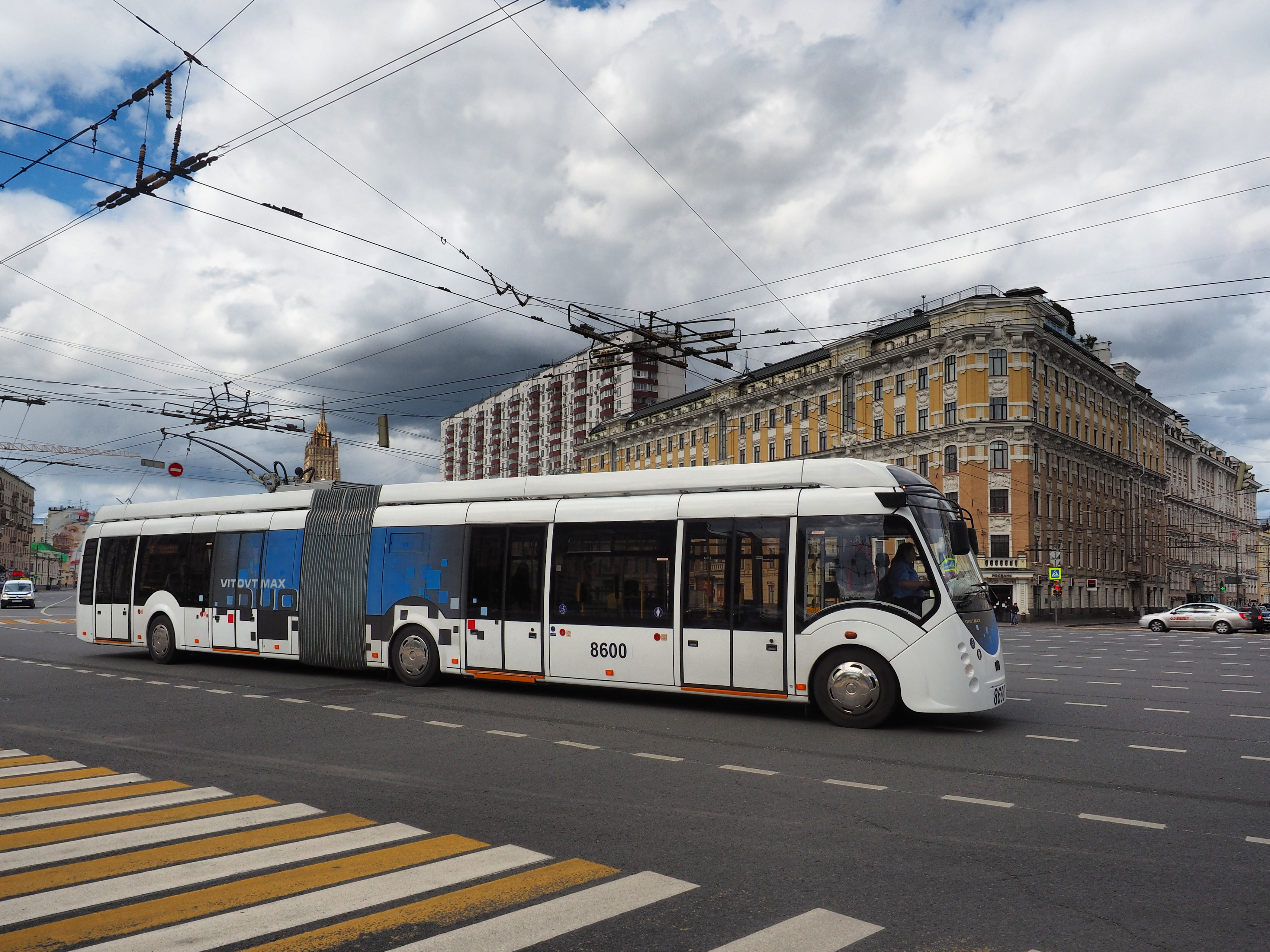 Belkommunmash #VitovtMaxDuo #trolleybus tests in Moscow